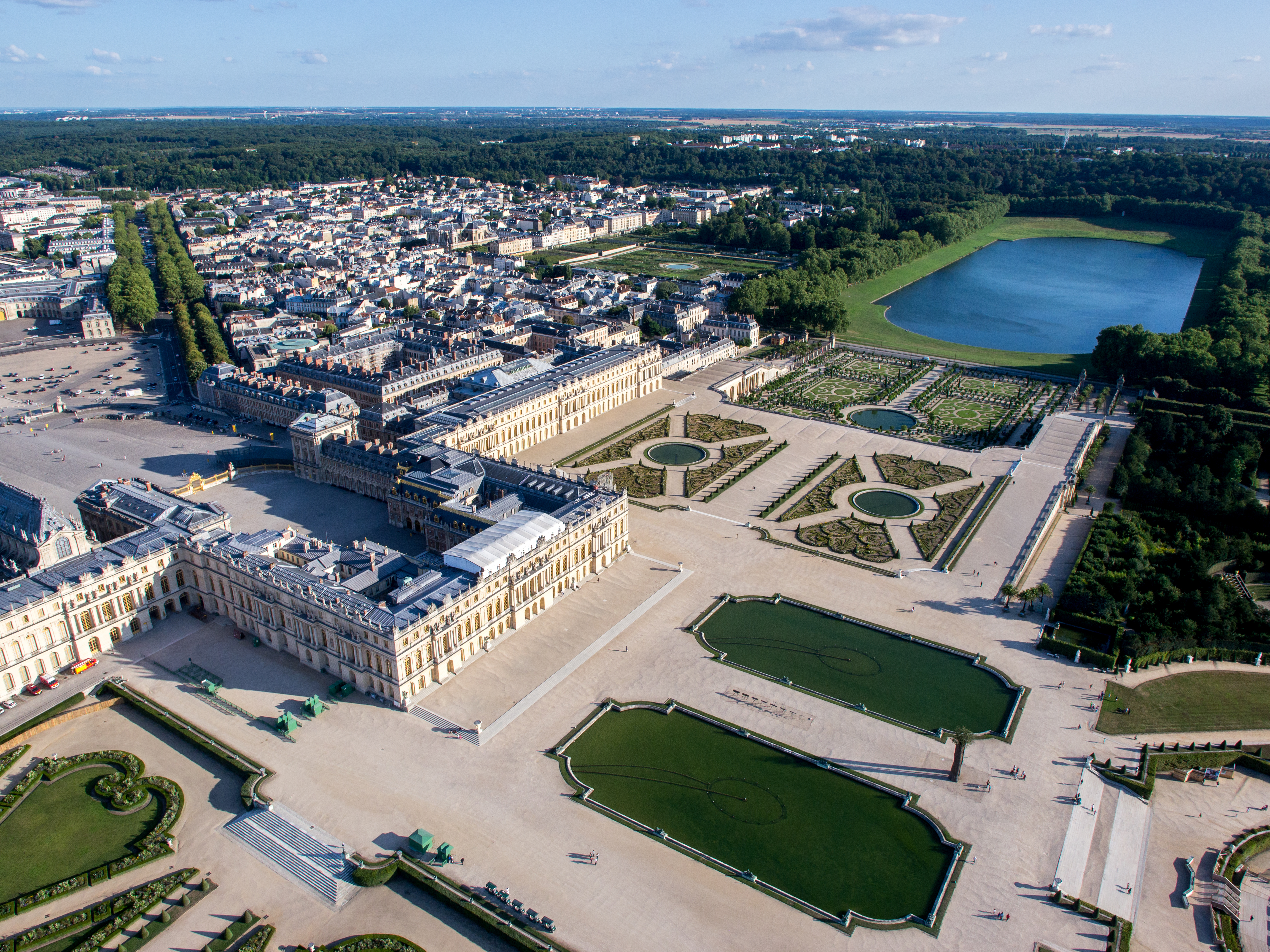 Aerial view of the Palace of Versailles and a part of its gardens with in foreground the Parterre d'Eau.